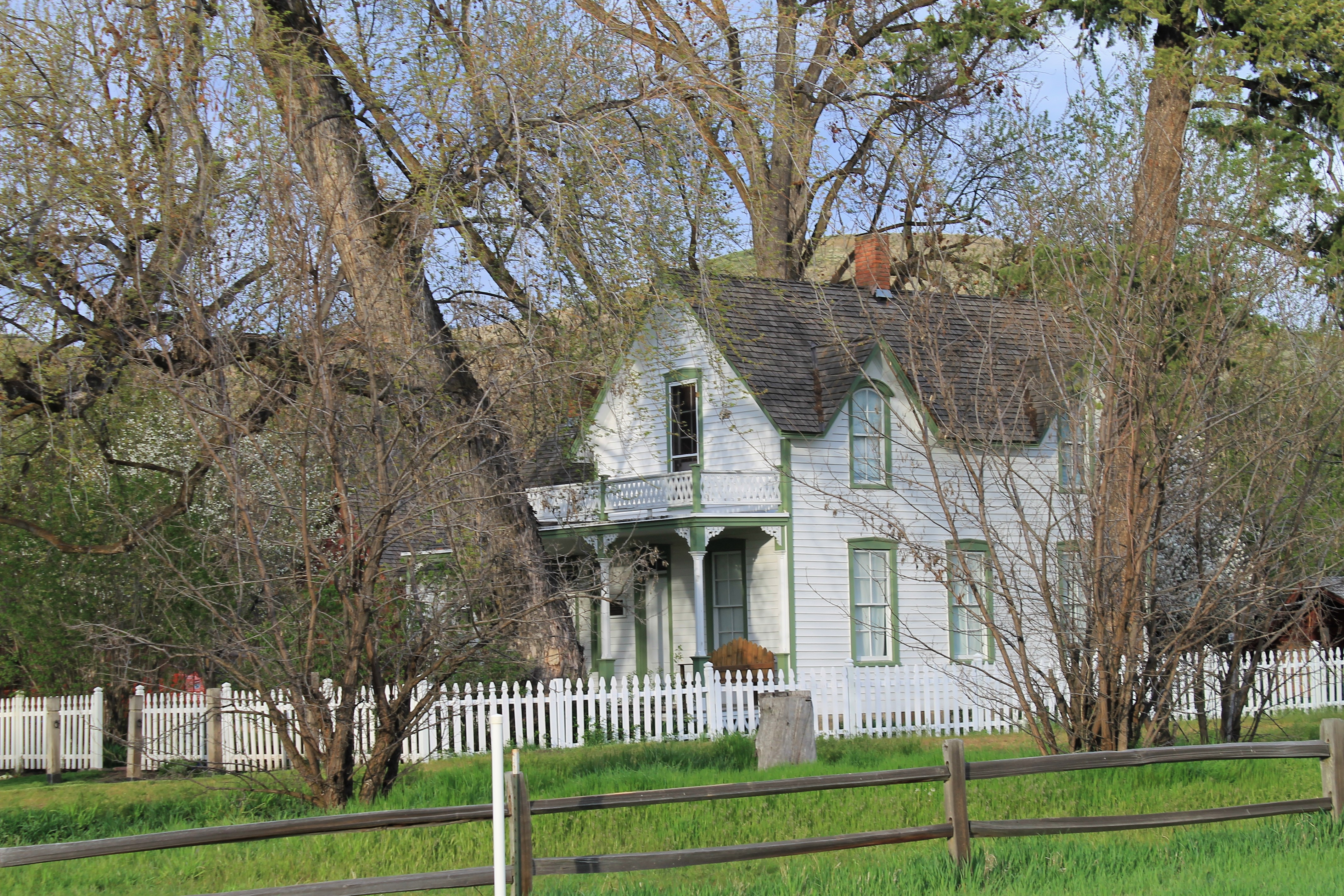 This is a photo of the historic Schick-Ostolasa Homestead in Hidden Springs.